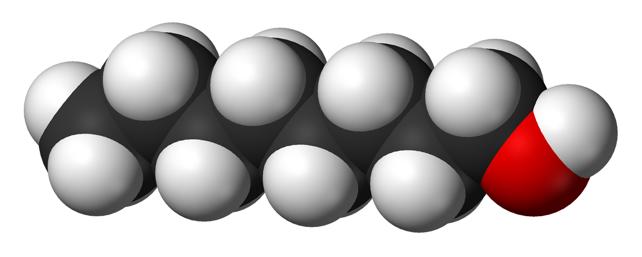 Ball and stick model of the 1-Octanol molecule.